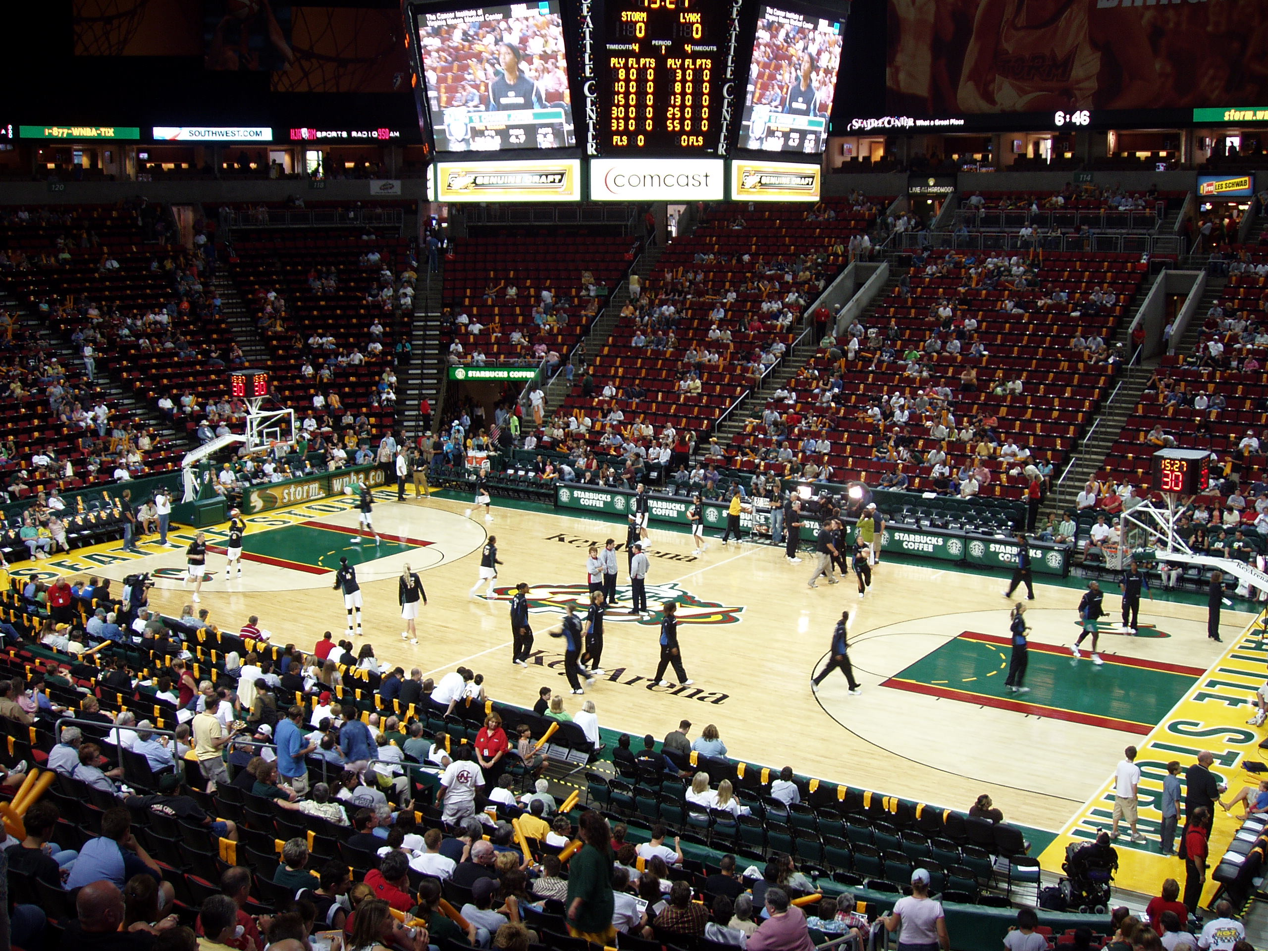 Created by user and released into the public domain.